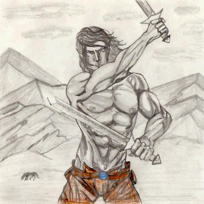 It started just as a muscle study and ended as Caranthir...